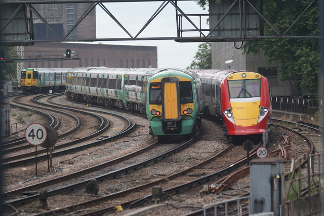 Trains Outside Victoria Station, London